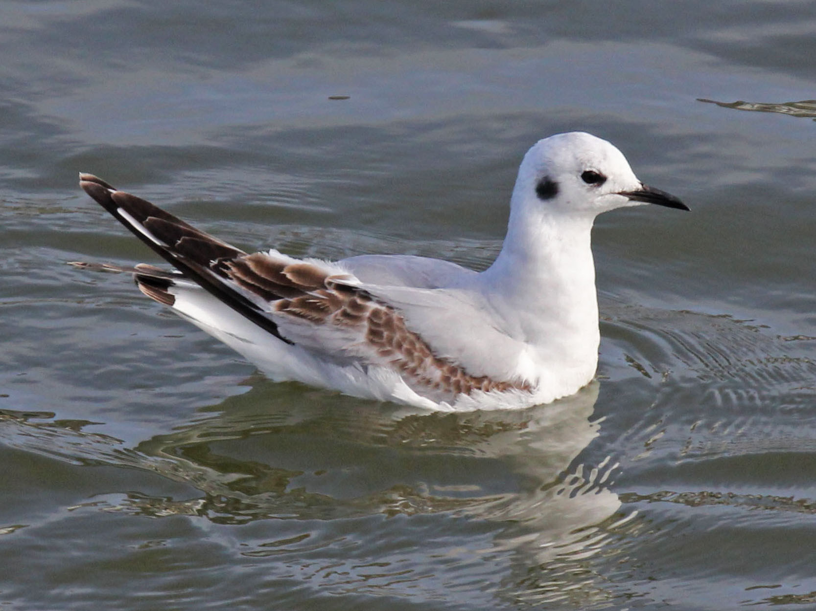 Juvenile Bonaparte's Gull (Chroicocephalus philadelphia) - Bald Head Island, North Carolina